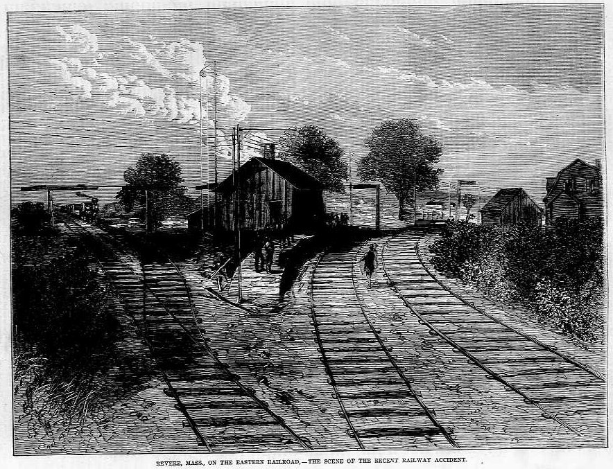 Woodcut of the Revere railroad station, from shortly after the Great Train Wreck of 1871